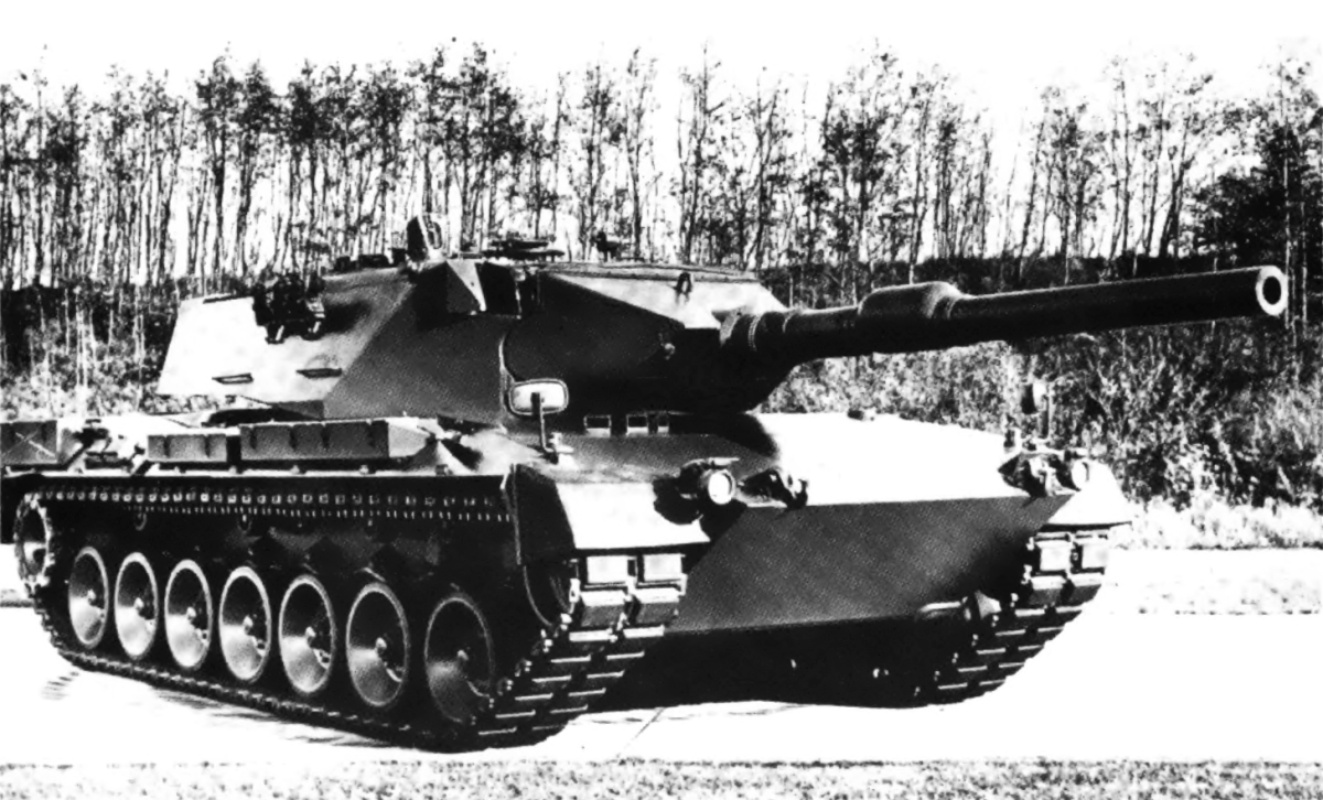 Leopard 2 120mm smooth-bore gun